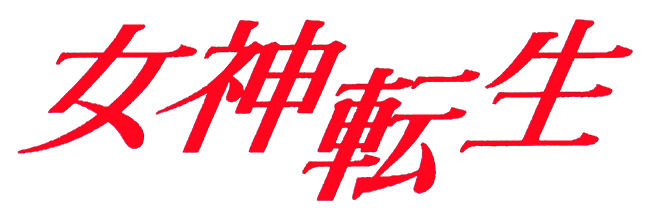 Megami Tensei series logotype